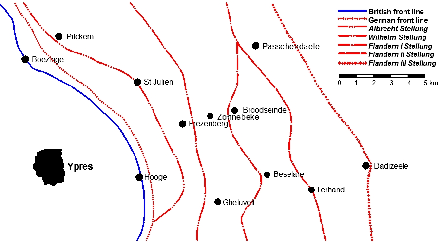 The British front line and the German defences in the area east of Ypres, mid-1917, with the active Albrecht Stellung, Wilhelm Stellung, Flandern I Stellung, Flandern II Stellung and Flandern III Stellung